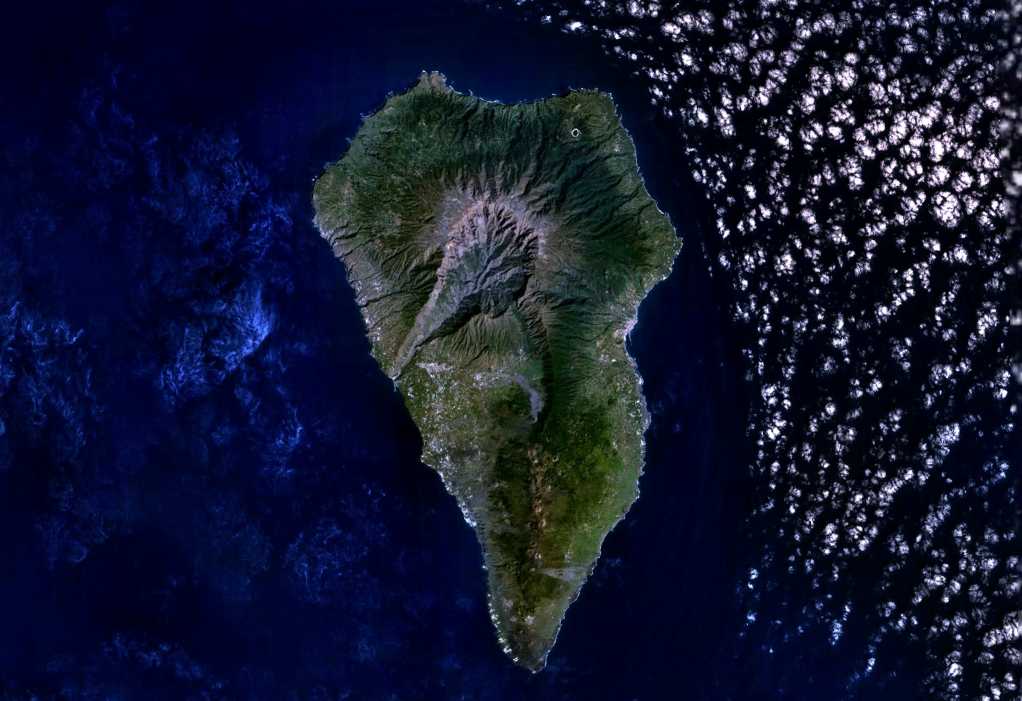 La Palma Island (Canary Islands, Spain) from LANDSAT7 satellite of NASA. Coordinates: -17.85514W 28.66873N